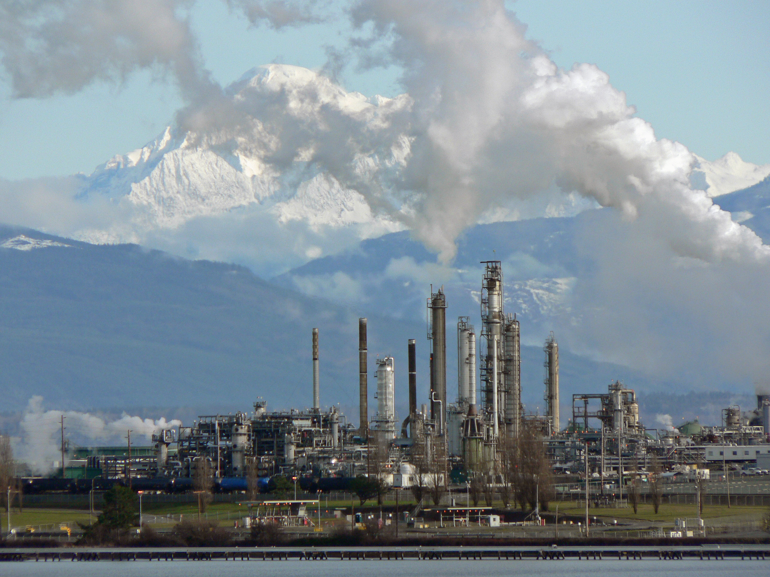 Anacortes Refinery (Tesoro Corporation), on the north end of March Point; Mount Baker (10,781 feet, 3286 meters).